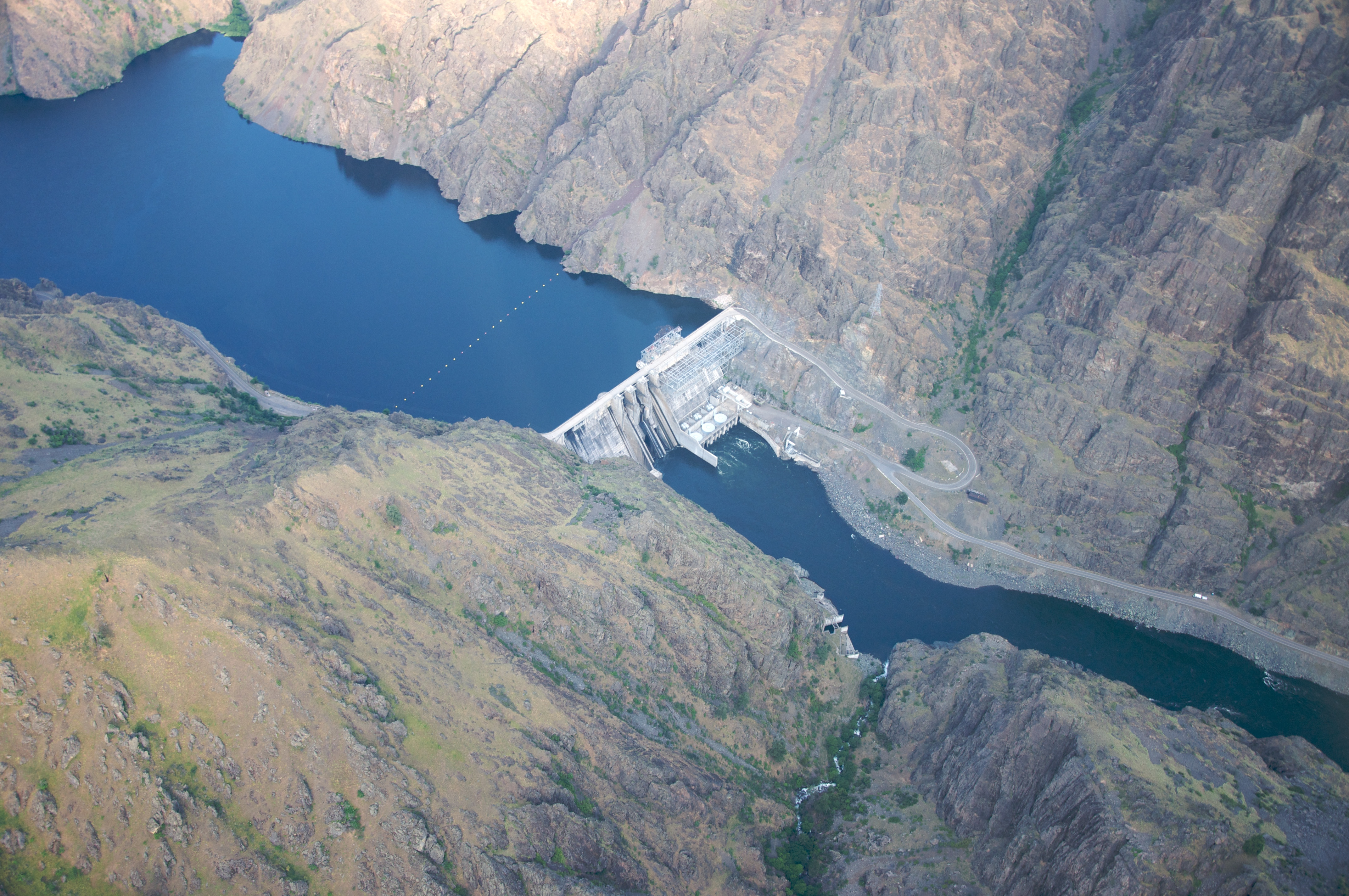 Hells Canyon Dam on the Snake River, the border between Oregon and Idaho states.